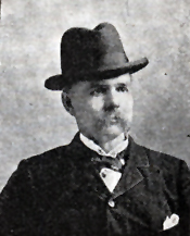 Thomas M. Paschal, US Representative from Texas